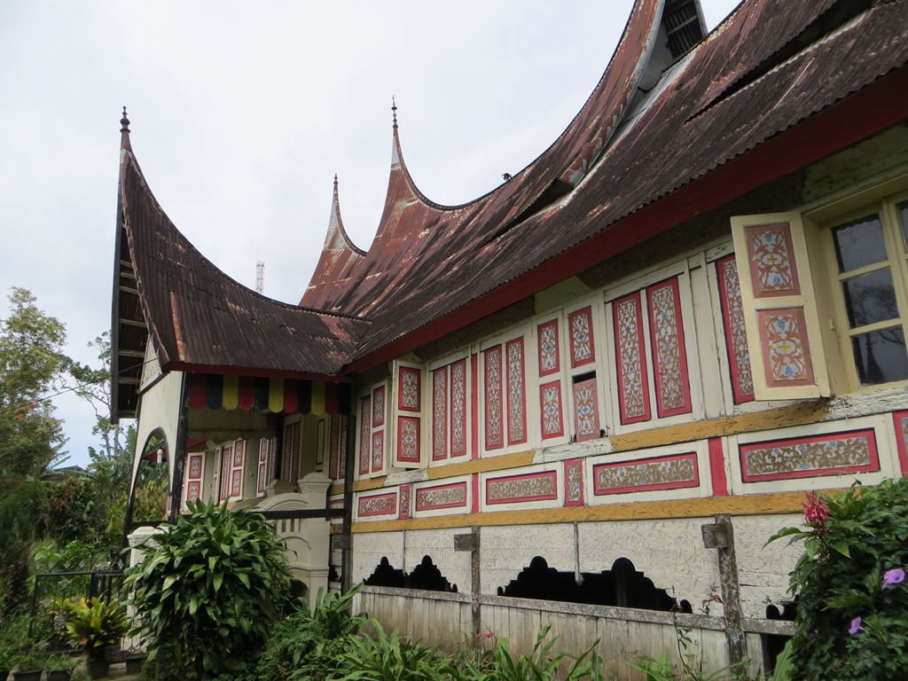 Rumah Gadang Matur, Agam.